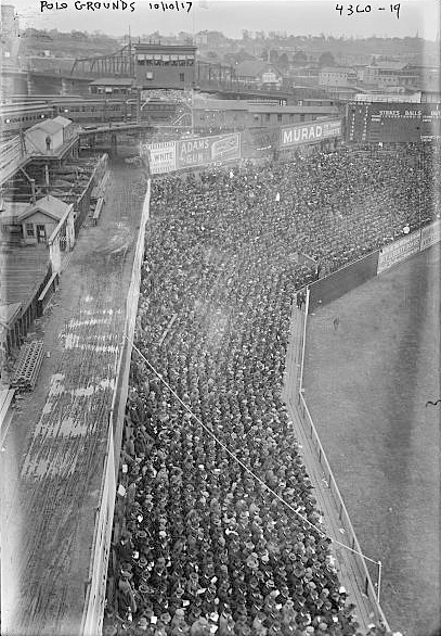 Polo Grounds bleachers during Game 3 of the 1917 World Series (Giants vs. White Sox), October 10, 1917.